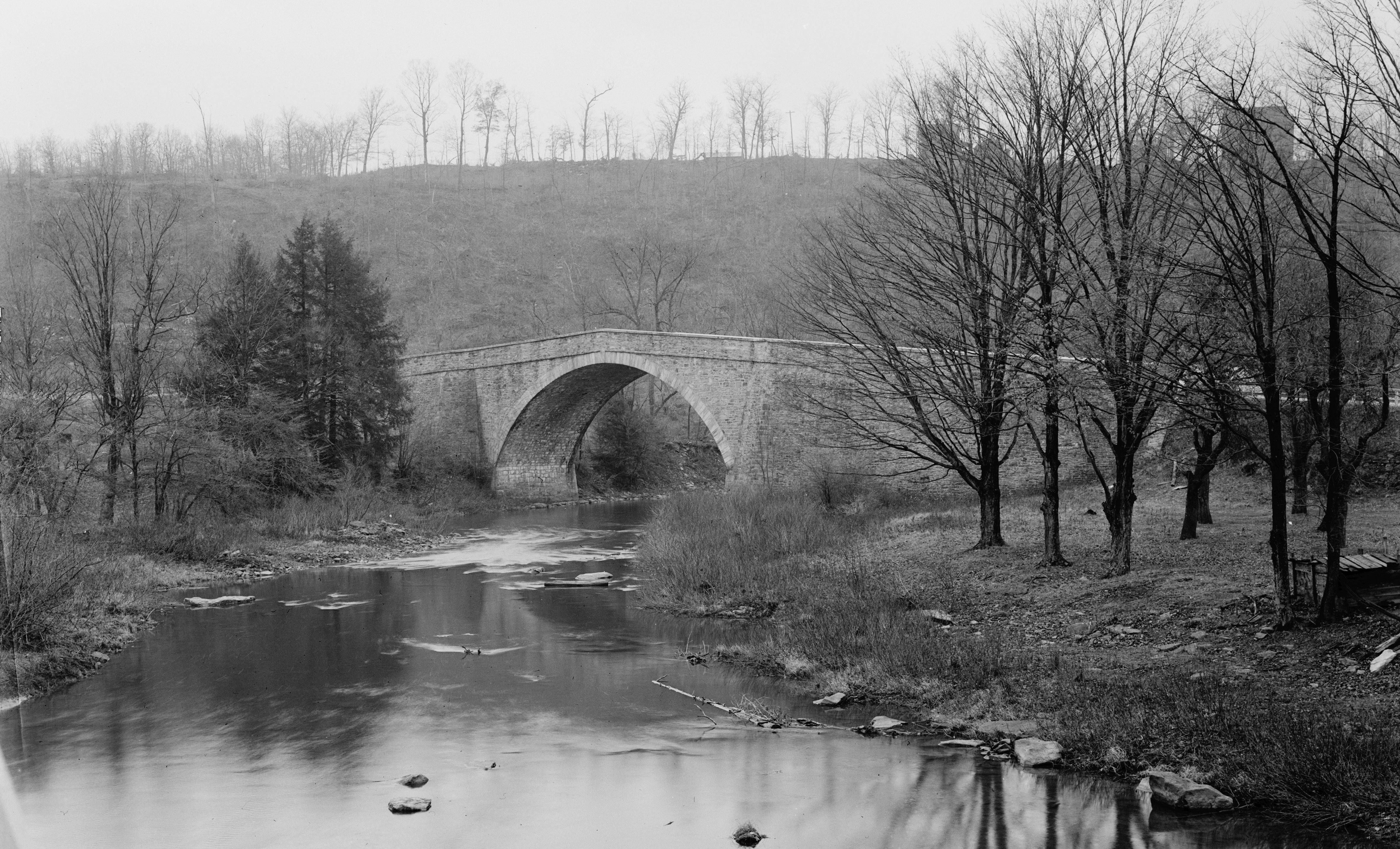 A photograph of the Casselman River Bridge in Grantsville, Maryland, taken by A. S. Burns in December 1933. Cropped to remove outer border by Algorerhythms, September 27, 2008.